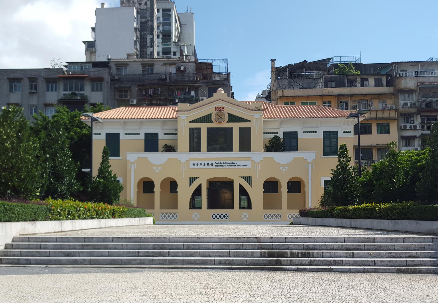 Macau Youth Activity and Exhibition Centre